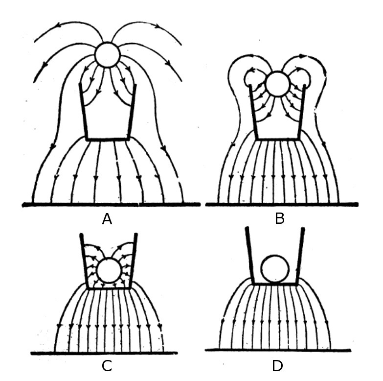 Drawing of electric fields of a charged ball as it is lowered into a metal pail in Faraday's ice pail experiment. This experiment, performed in 1841 by Michael Faraday, demonstrated that a charged object, enclosed inside a metal container, induces an equal charge on the container. This drawing shows that when the charged ball (circle) is far enough inside the container (drawing C), the electric field lines all terminate on the inside of the container, so the induced charge is equal to the inducing charge. Alterations to image:Removed labels on parts, and labelled the four drawings.